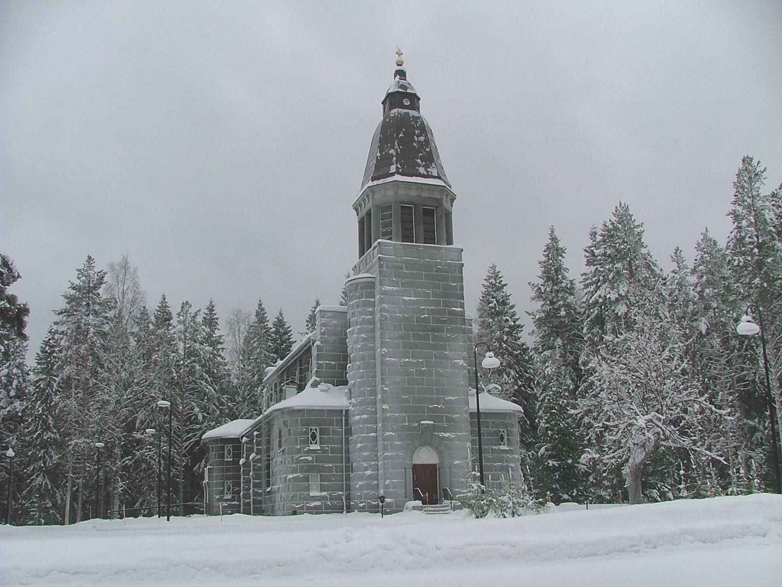 Konnevesi Church in Konnevesi, Finland